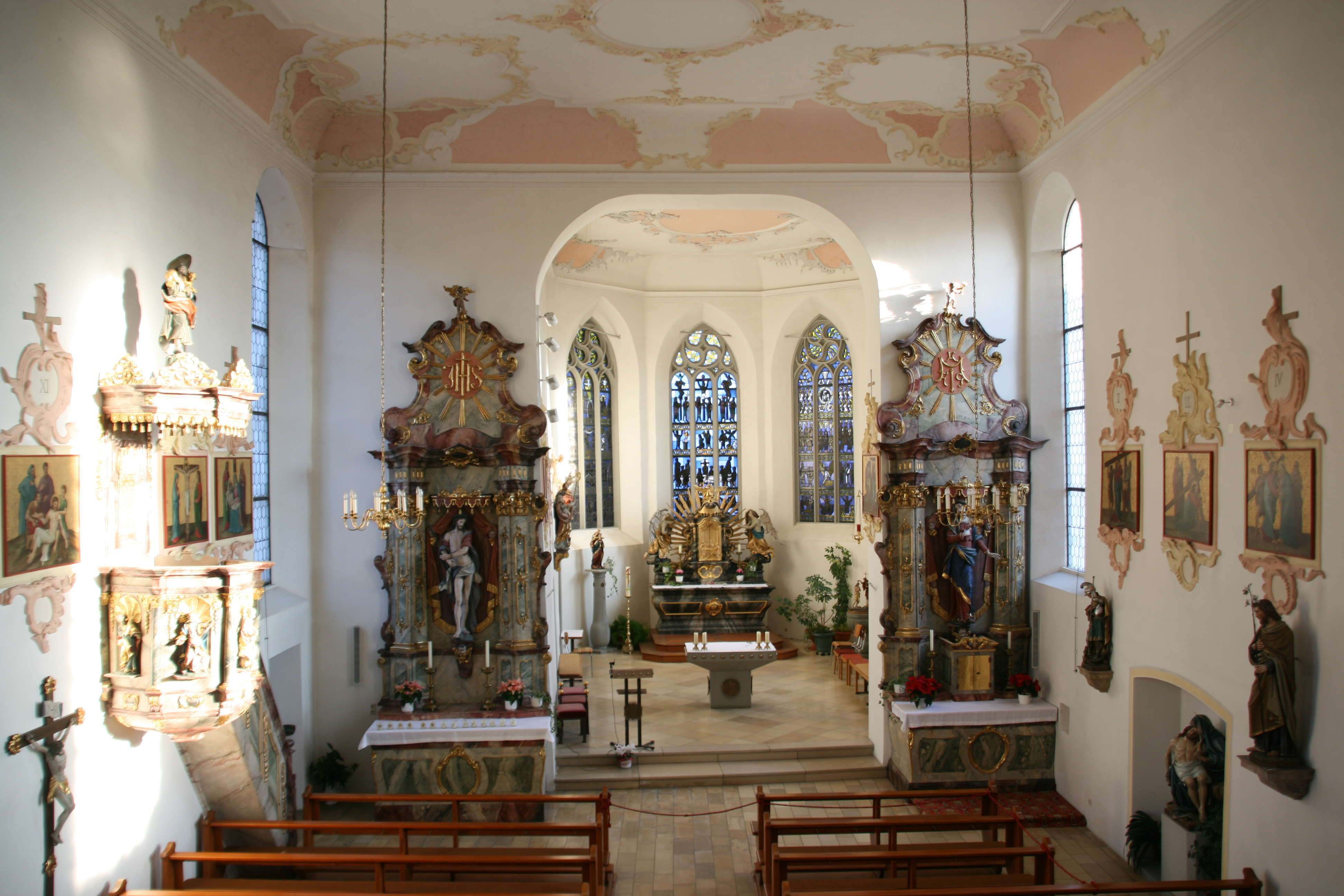 Interior of the St. Martin Church in Sipplingen